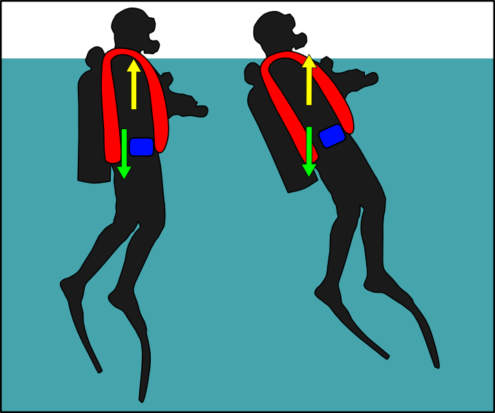 Diver with early jacket BCD stabilised at surface